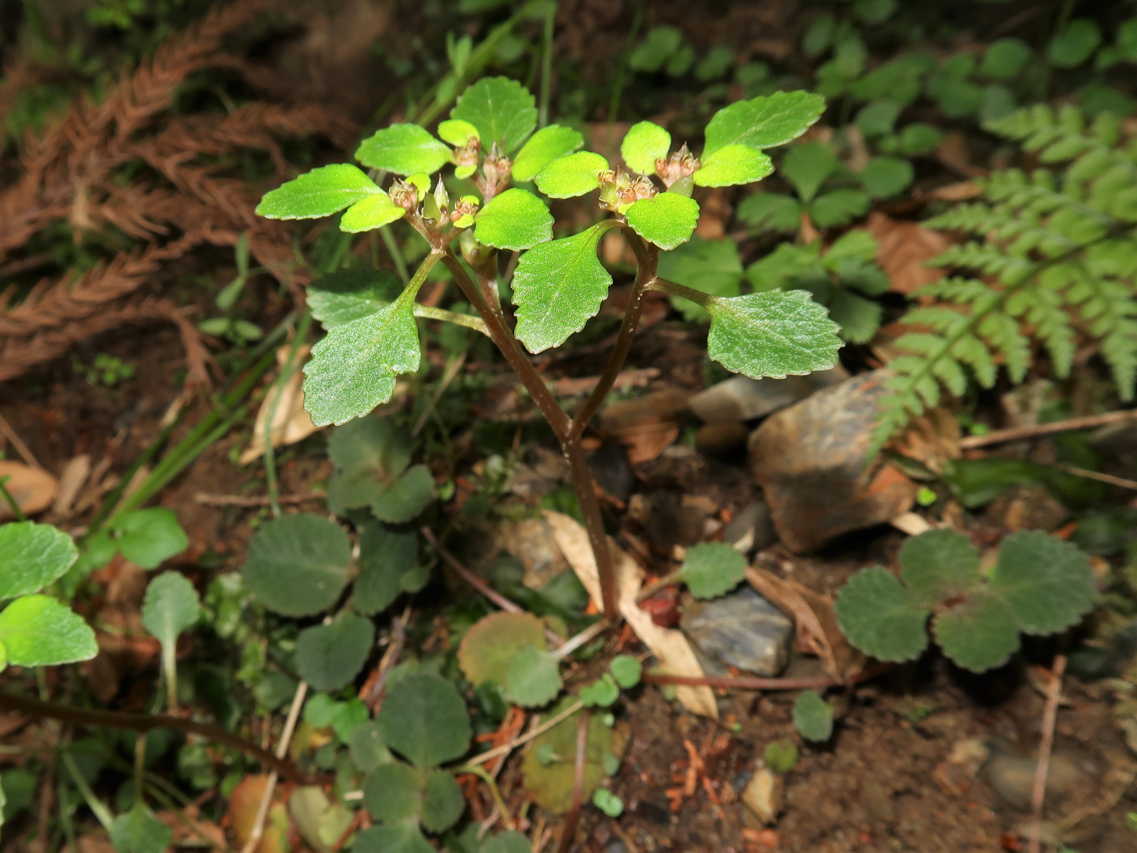 Chrysosplenium kiotoense, Mino city, Gifu pref., Japan